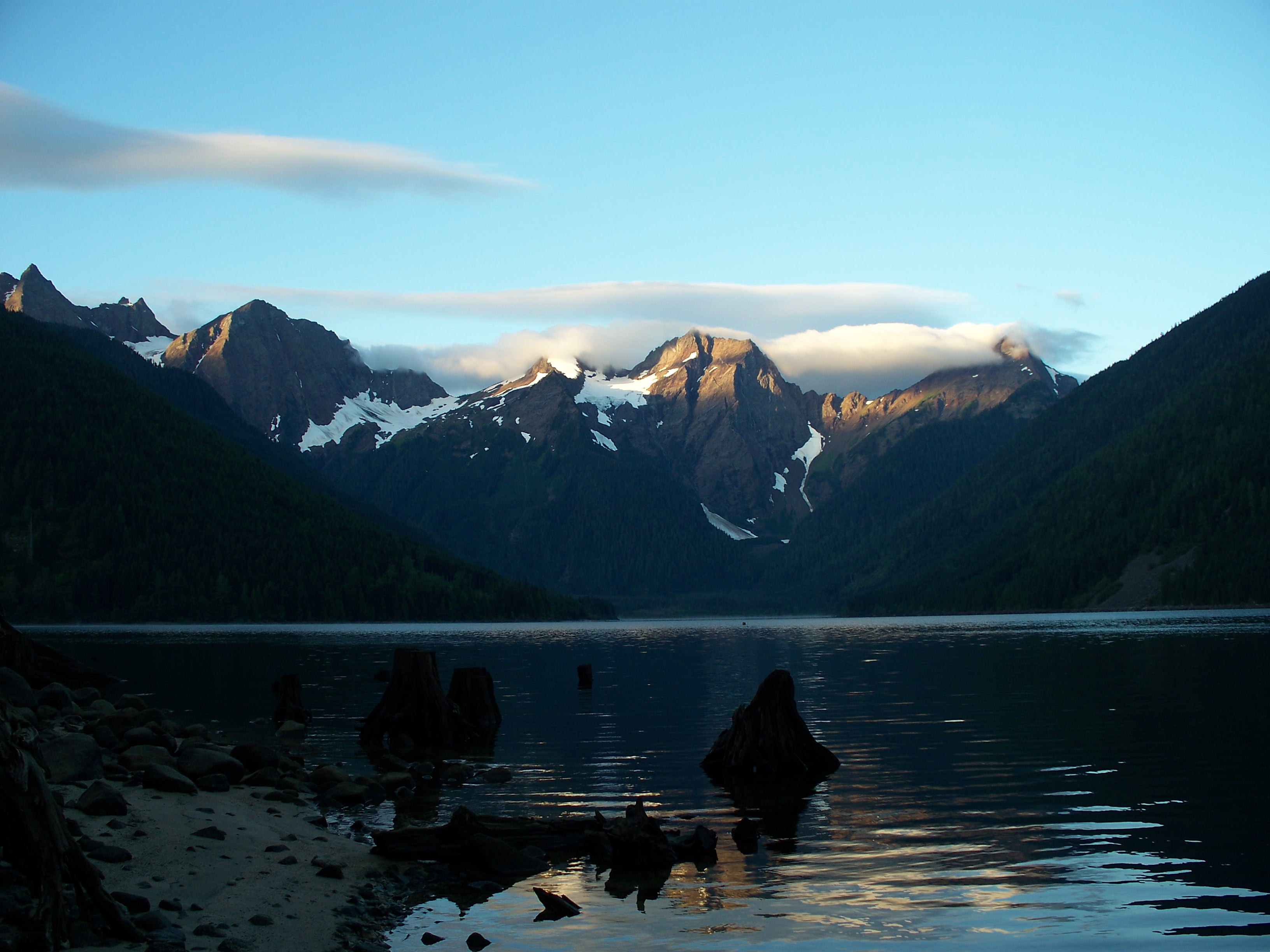 Photo of Jones (Wahleach) Lake, near Chilliwack, British Columbia, Canada.